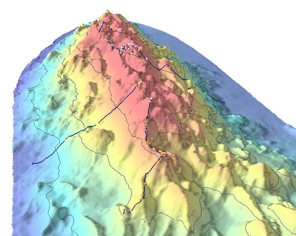 Bathymetric showing details of part of Davidson Seamount. The lines indicate the path of the 2002 expedition, and the dots signifigant coral nurseries